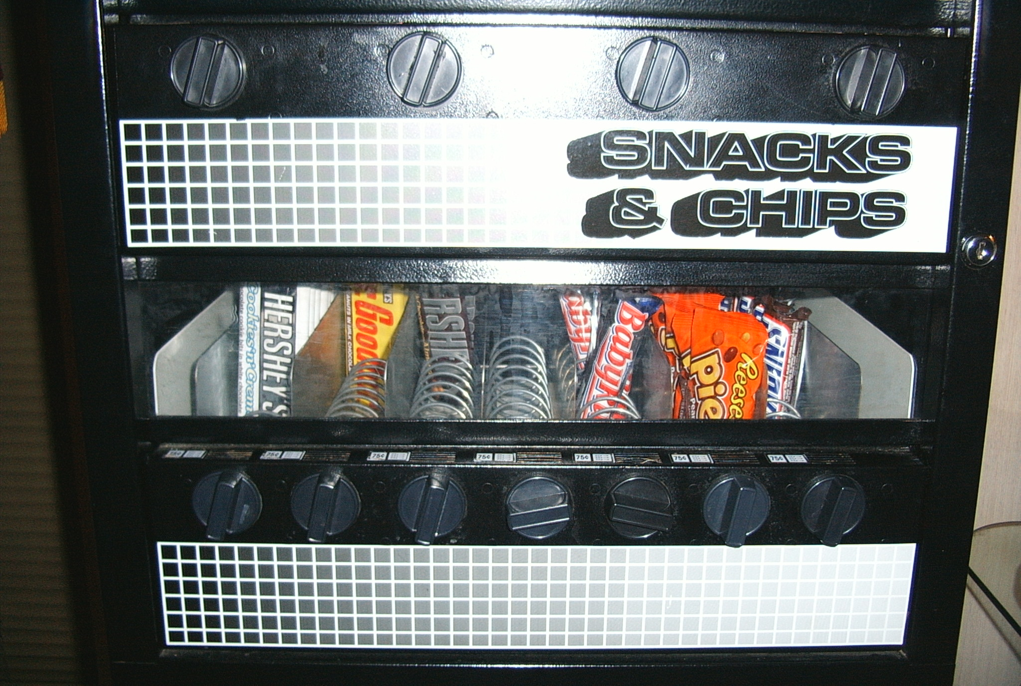 A fully-mechanical snack vending machine